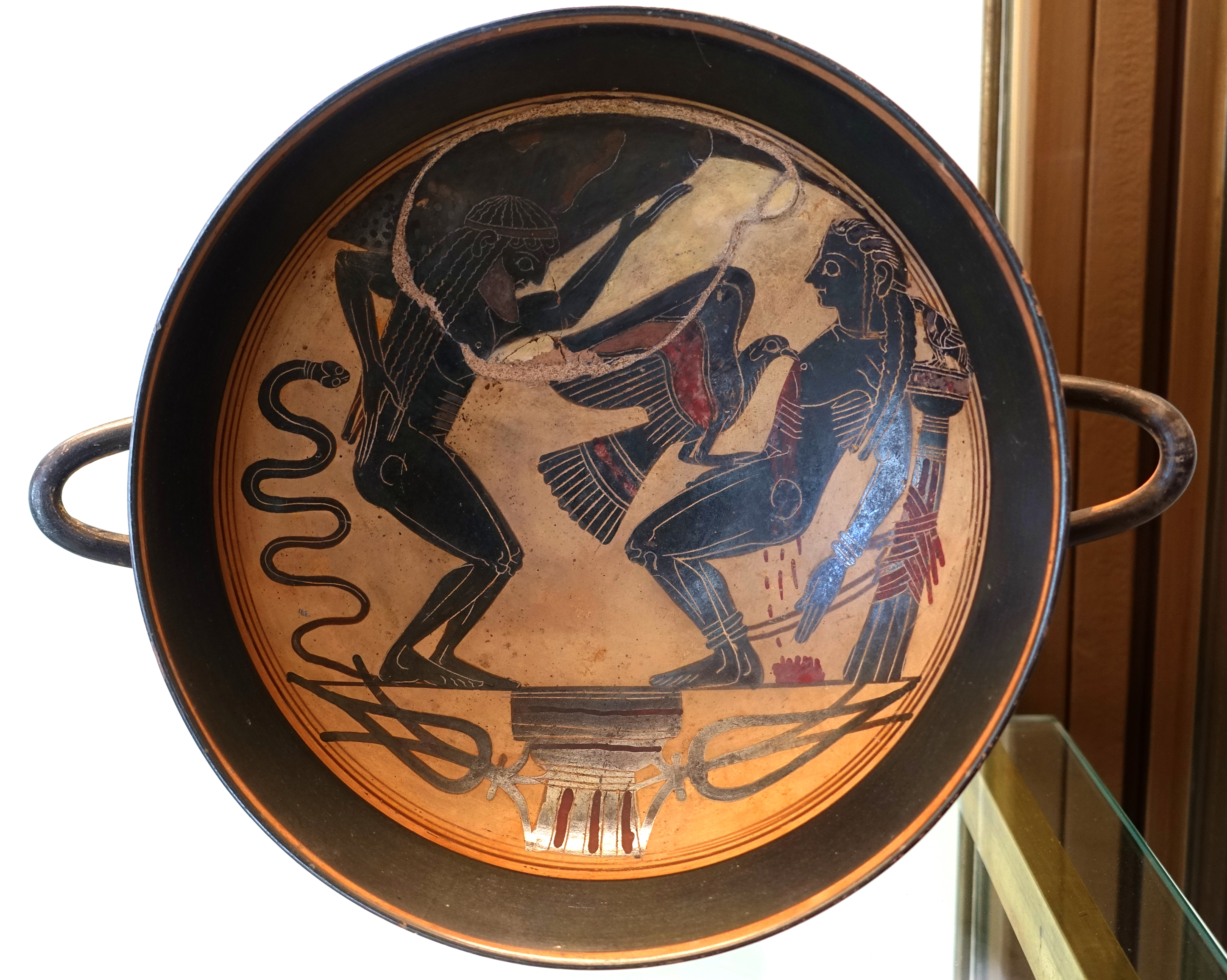 Exhibit in the Museo Gregoriano Etrusco - Vatican Museums.